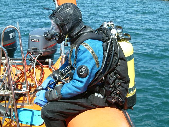 A SCUBA diver about to enter the sea from an RIB.